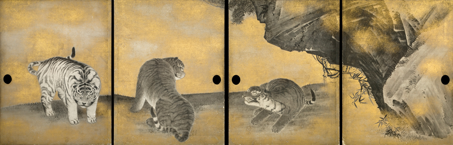 Tigers at Play by Maruyama Okyo, Kotohiragu, Kotohira, Kagawa, Japan